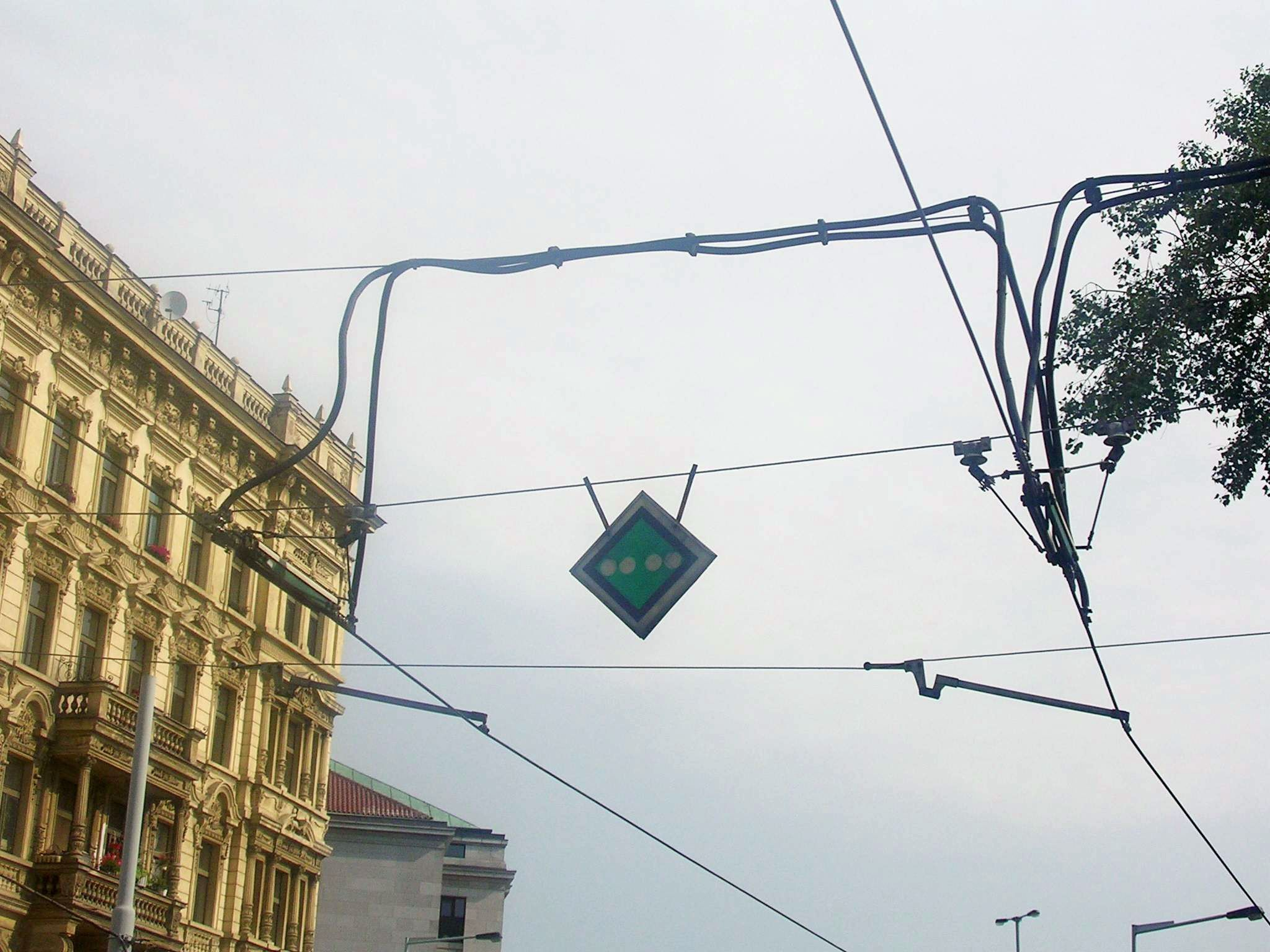 Section insulator of tram overhead lines. Prague.